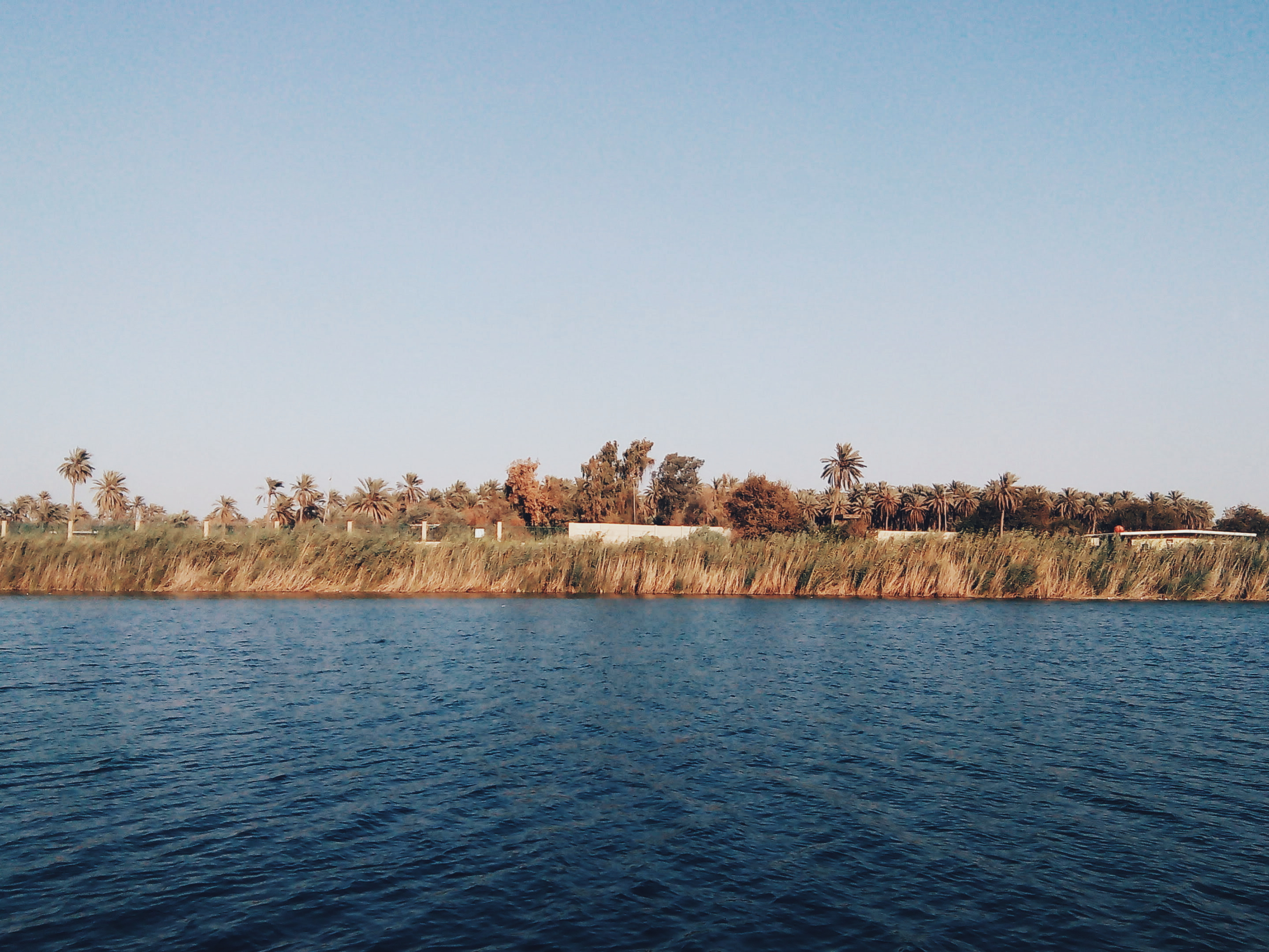 The Marshes it's one beautiful places in south of Iraqالشجرة التين والأغنام